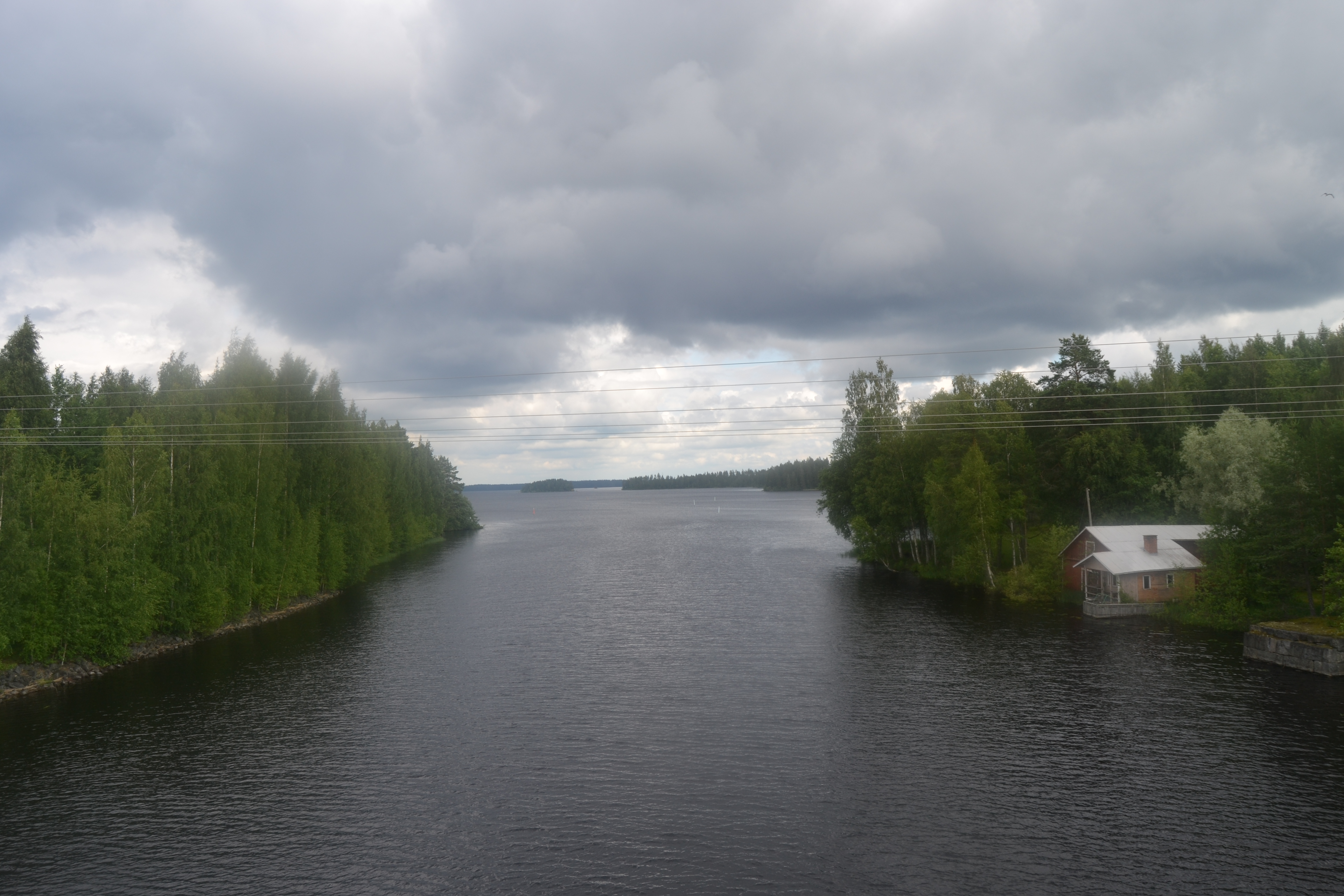 Säviänvirta canal in Pielavesi, Finland